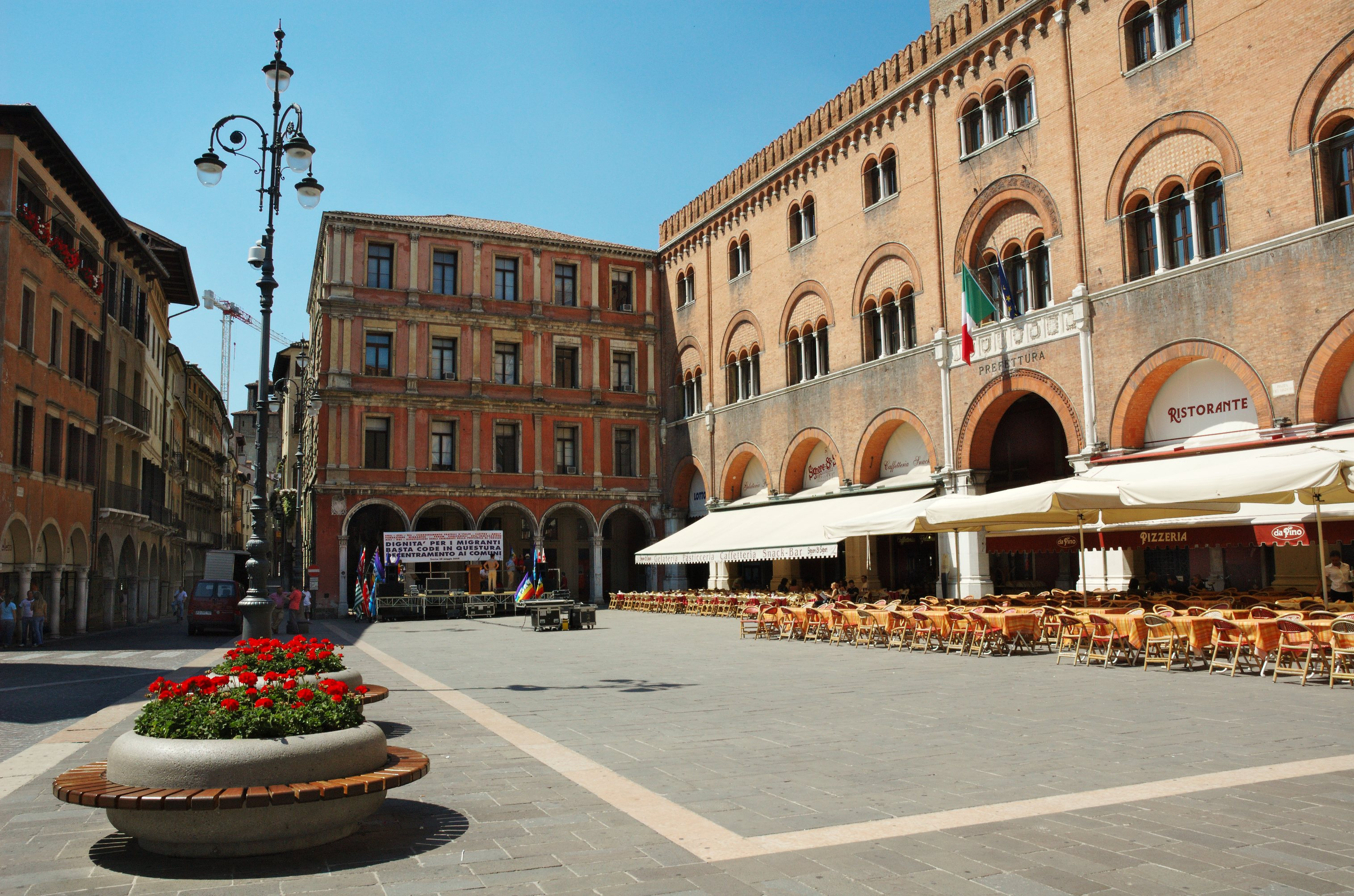 Piazza dei Signori, Treviso.